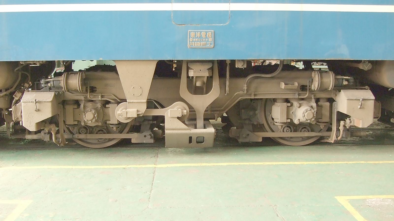 Japanese National Railways truck typeDT134. The center truck of Class EF66. Location:at Shimonoseki Railway Yard, Shimonoseki, Yamaguchi, Japan